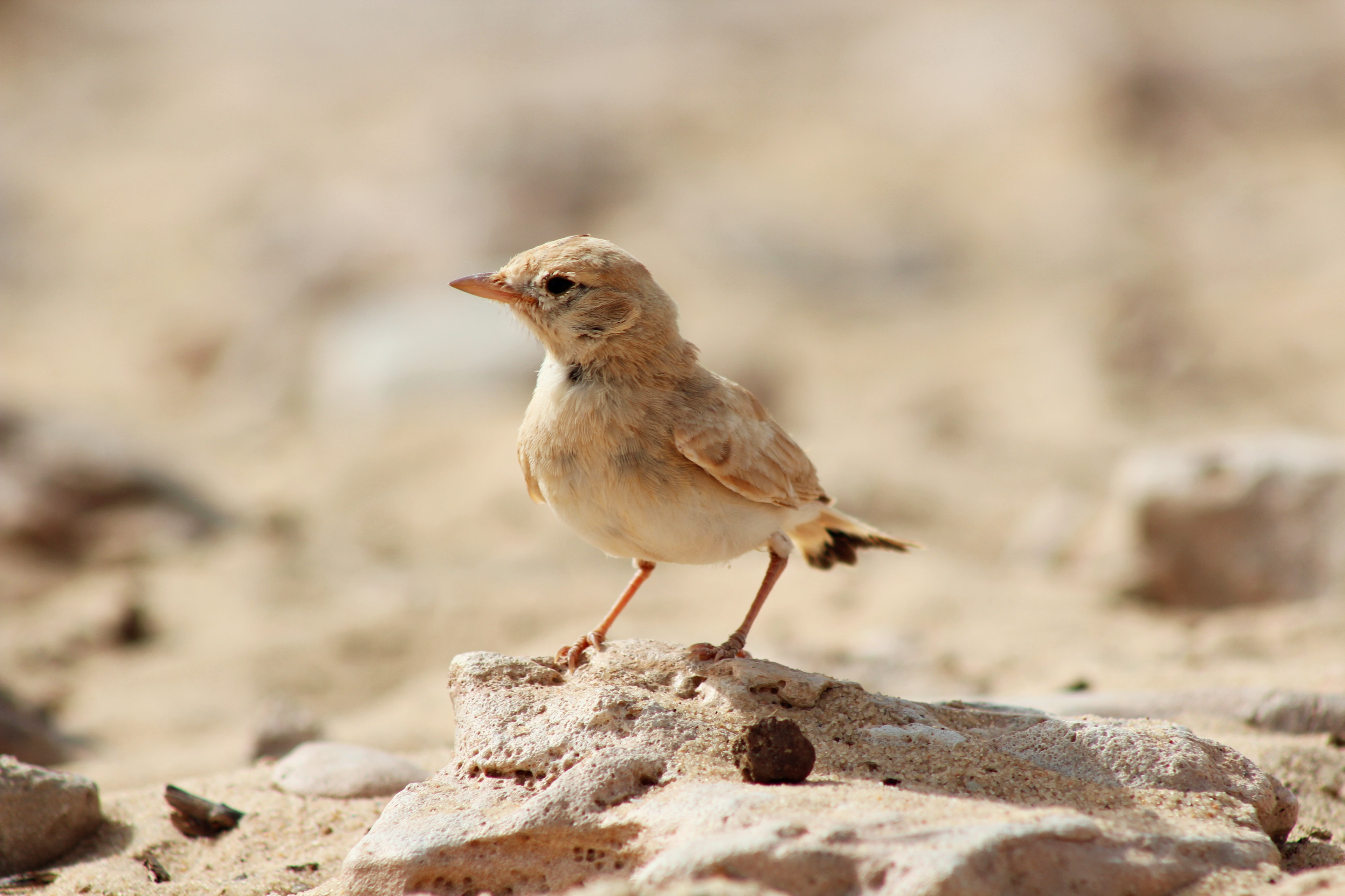 Eremophila bilopha, juvenile. This picture has been taken in the station of aclimation Safia near the Morocco-Mauritania border, south of Dakhla.